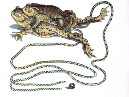 "Naturgeschichte und Abbildungen Der Reptilien", Mating toads, Bufo vulgaris, Bufo bombinus